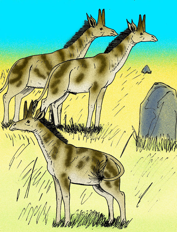 Reconstruction of the Late Miocene giraffe, Honanotherium schlosseri of Hunan Province, China